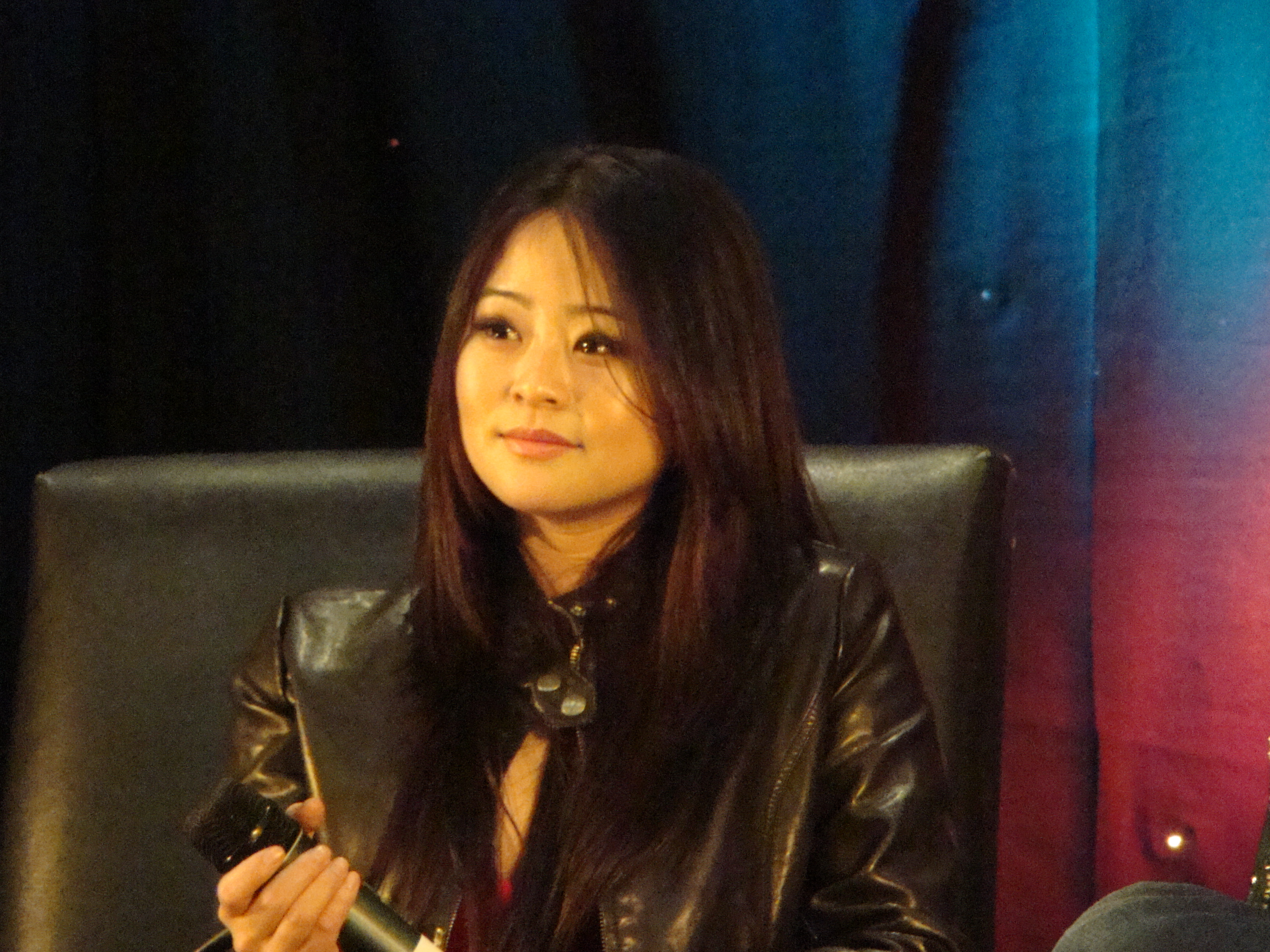 Julia Ling, at Starfury T2 Convention - June 13 2010, Thistle Hotel, Heathrow